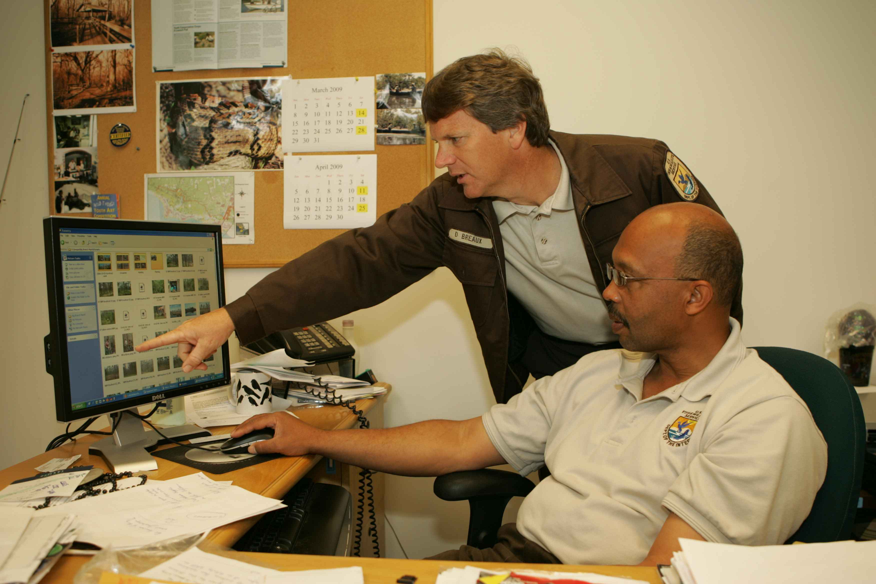 Image title: Employees discuss in office Image from Public domain images website